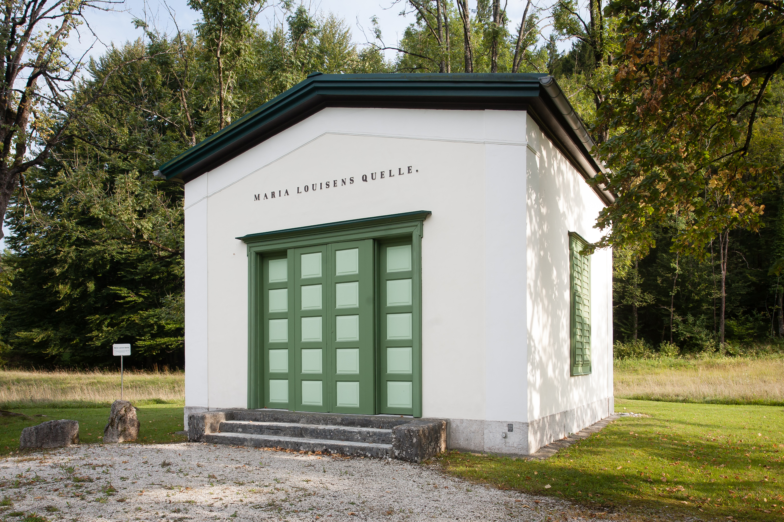 Maria Louisens Quelle